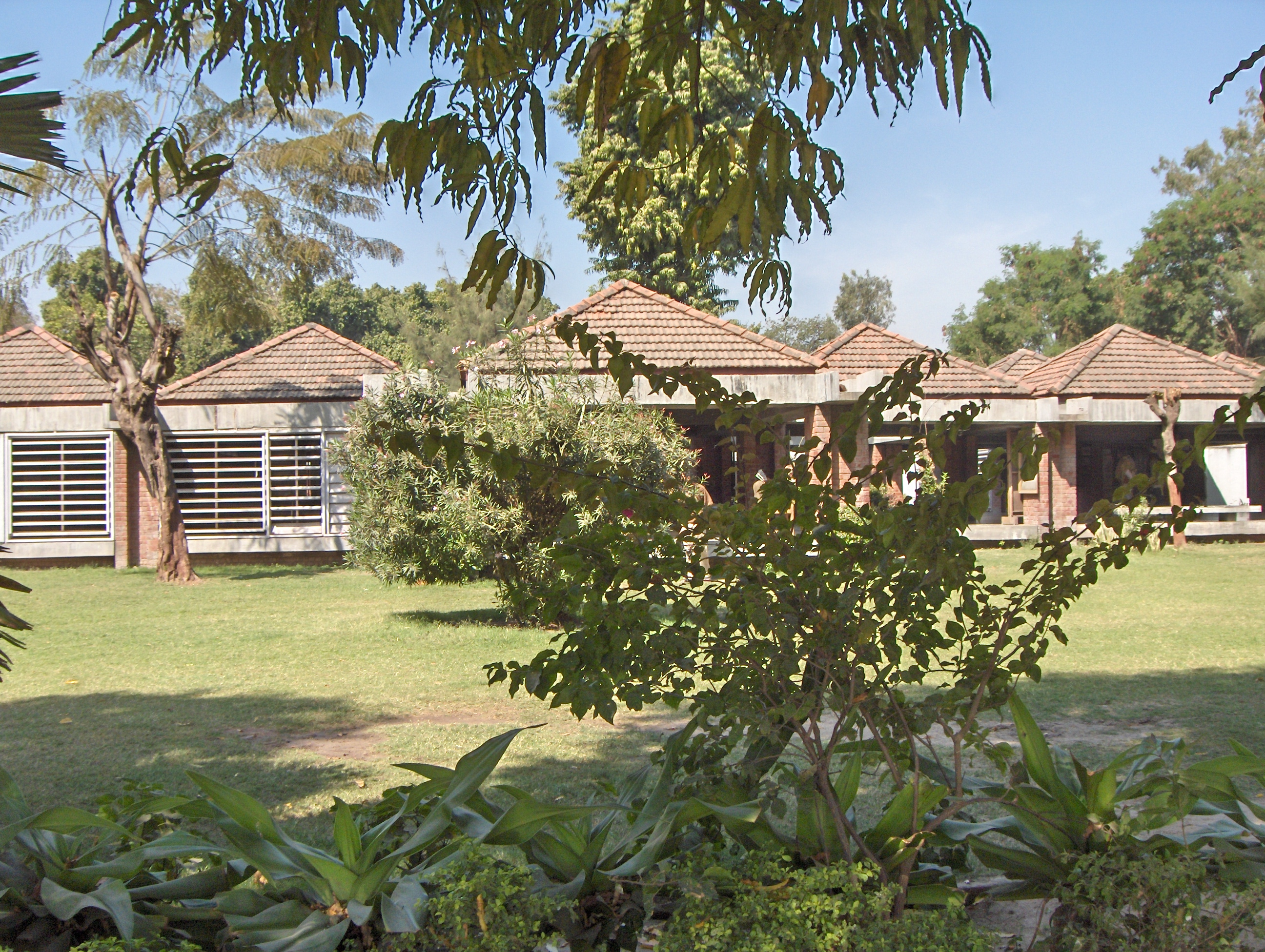 Sabarmati Ashram in Ahmedabad, India Picture taken by me, Nichalp on 28-Jan-2006